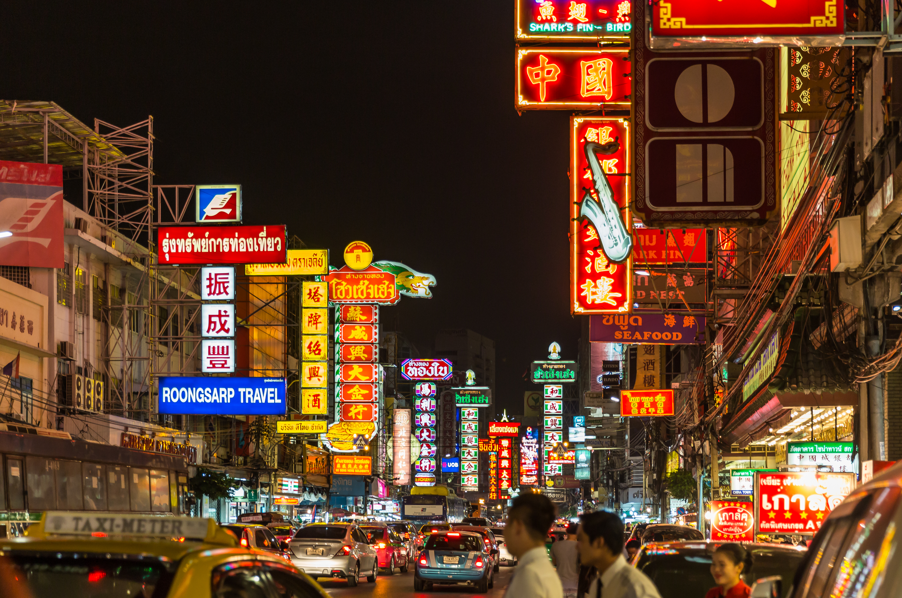 Yaowarat Road, the centre of Bangkok's Chinatown, at night